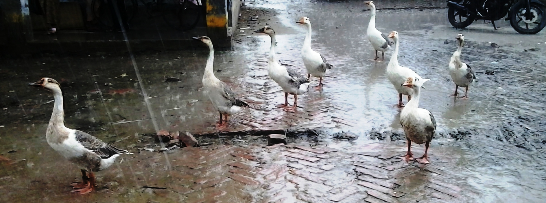 Goose on rain, koyra